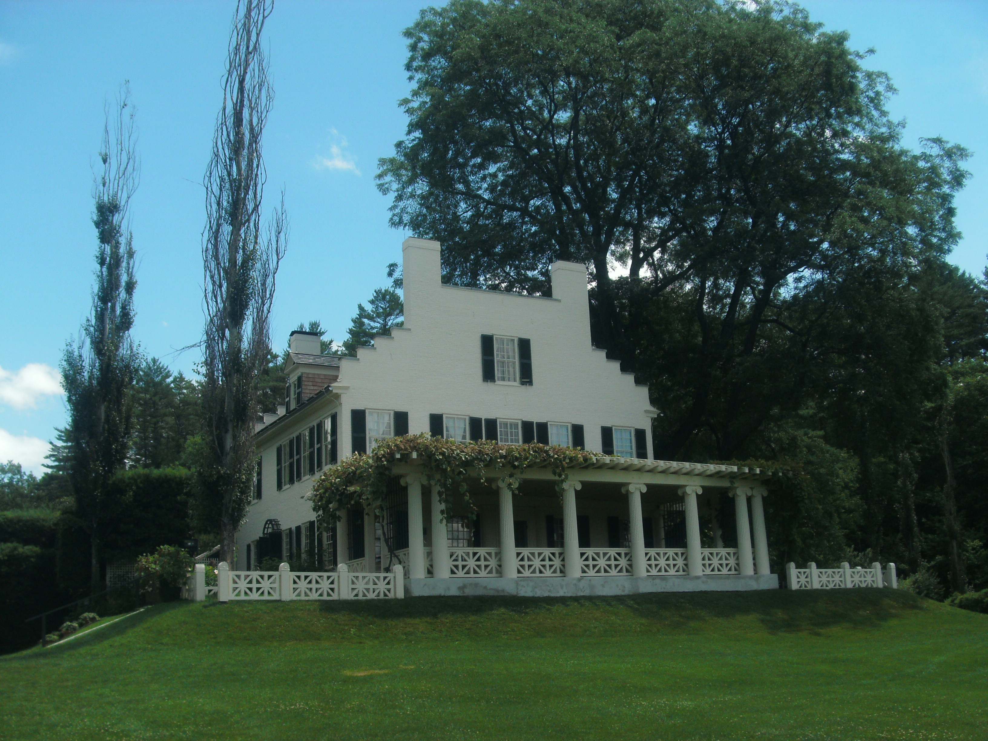 Augustus Saint-Gaudens Memorial, Cornish